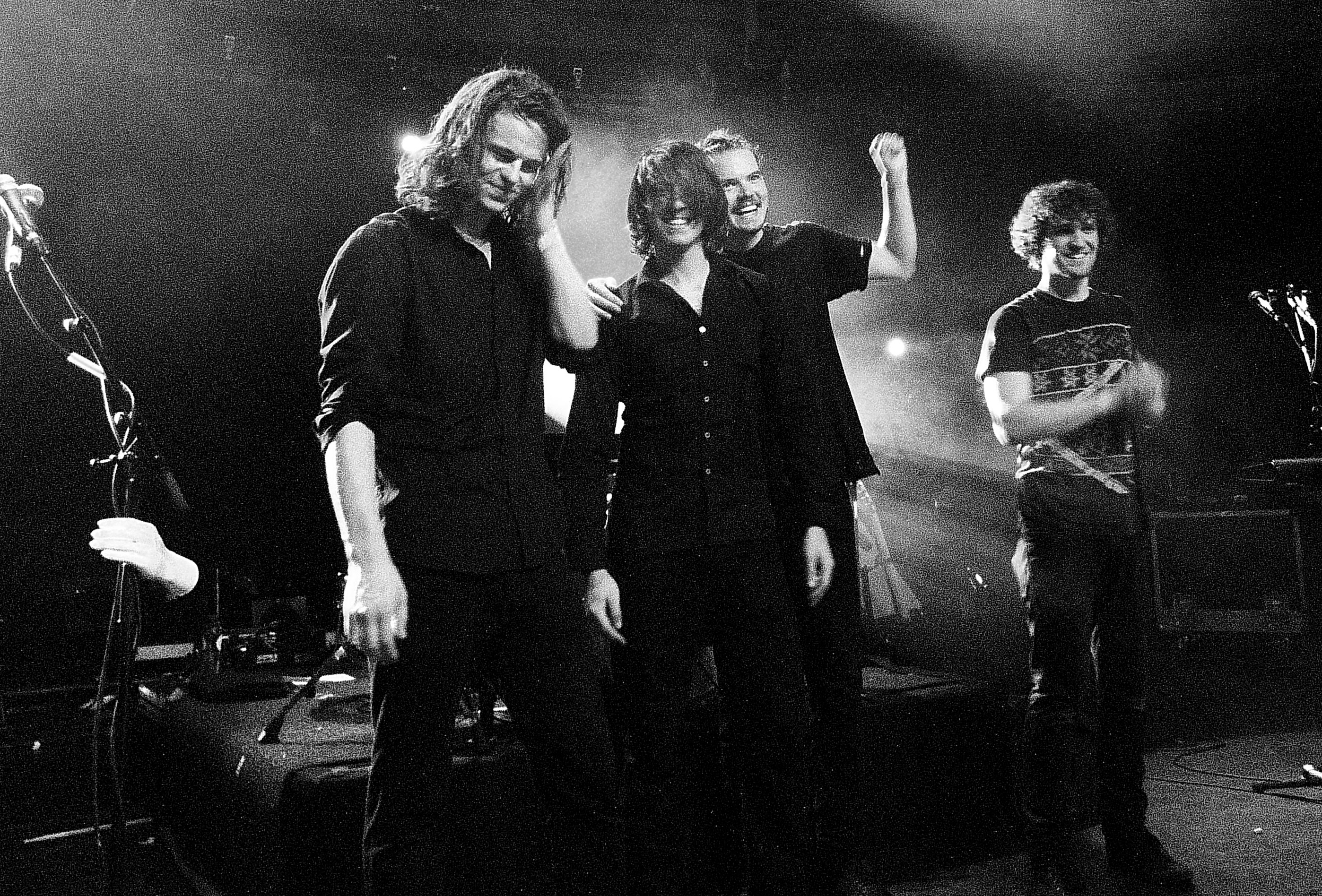 Half Moon Run at the Rotonde (Le Botanique), April 14, 2013.